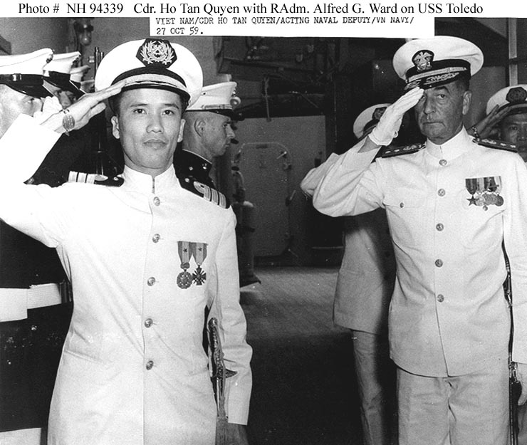 Commander Ho Tan Quyen, Active Naval Deputy, Republic of Vietnam Navy With Rear Admiral Alfred G. Ward, USN, Commander Cruiser Division One, on board USS Toledo (CA-133), during the ship's visit to Saigon for Vietnamese Independence Day celebrations, 27 October 1959. U.S. Naval Historical Center Photograph.